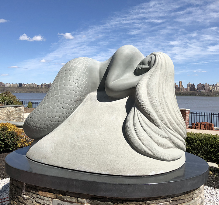 "The Sleeping Mermaid" carved in American Bluestone by Minako Yoshino, Edgewater, NJ. 2015.